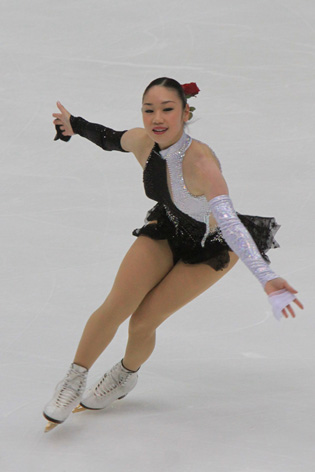 Yukari Nakano at the 2009 NHK Trophy.